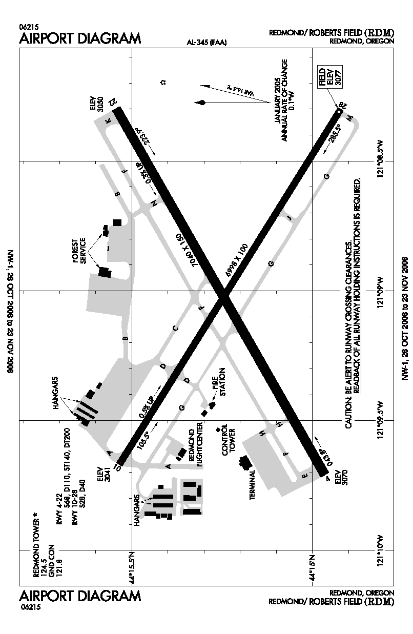 FAA airport diagram for RDM (Roberts Field Airport) in Oregon, United States.